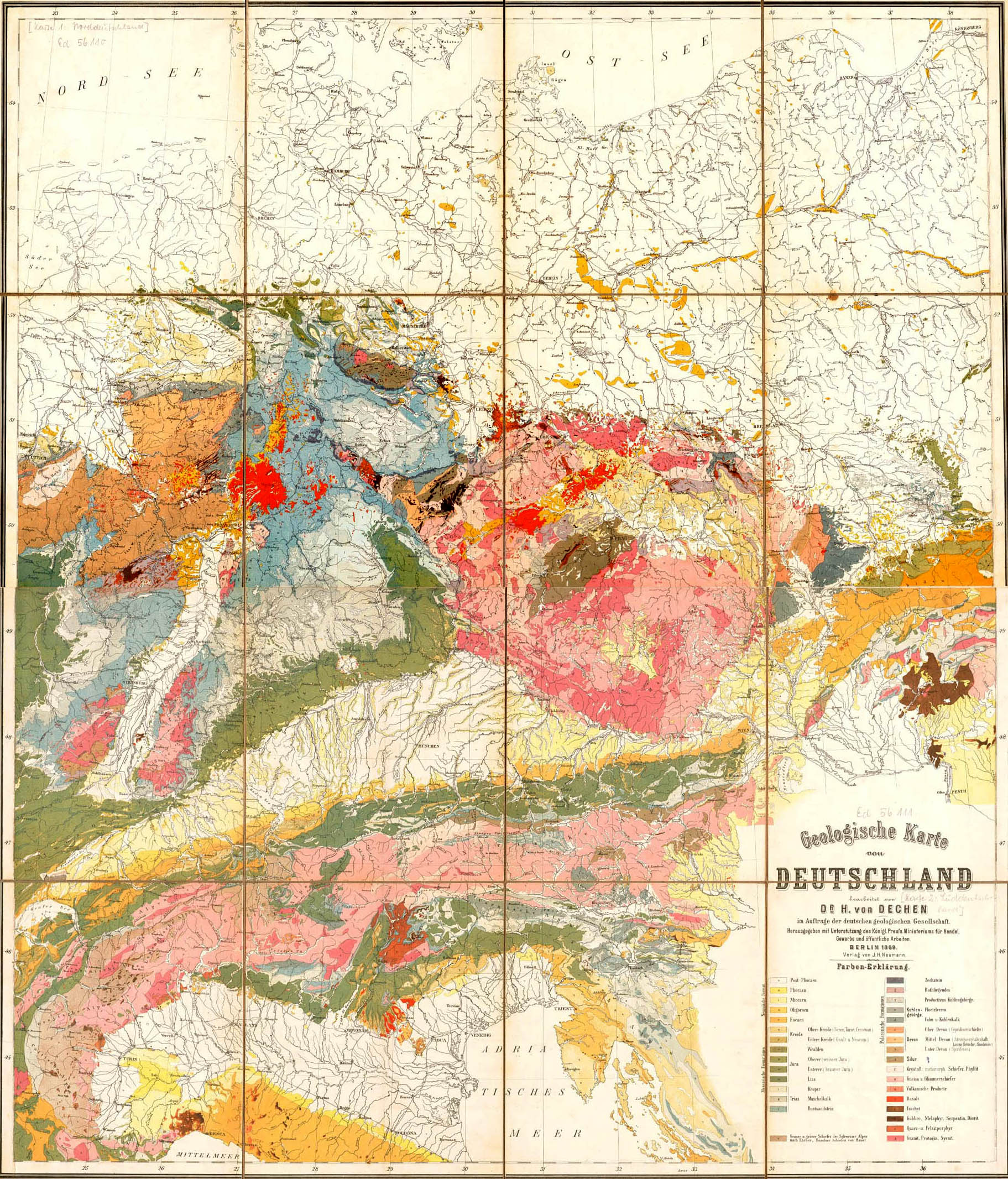 Geological map of Germany